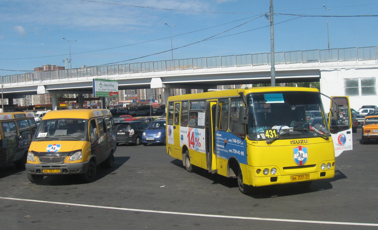 GAZelle bus (reg. BA 327 77, line 419) and Isuzu Bogdan bus (reg. BK 777 77, line 431) in Russia.